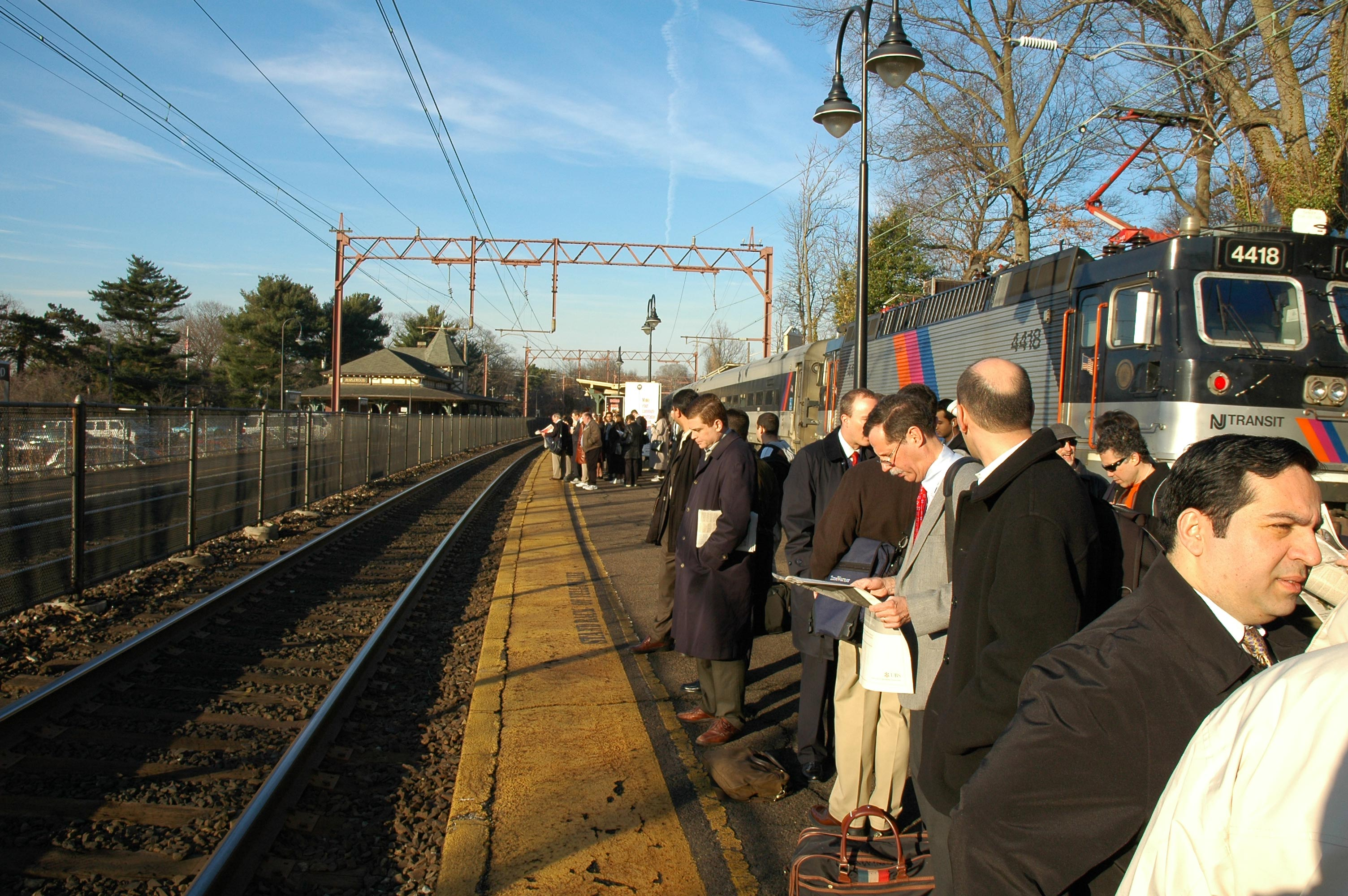 Commuters at Maplewood, NJ